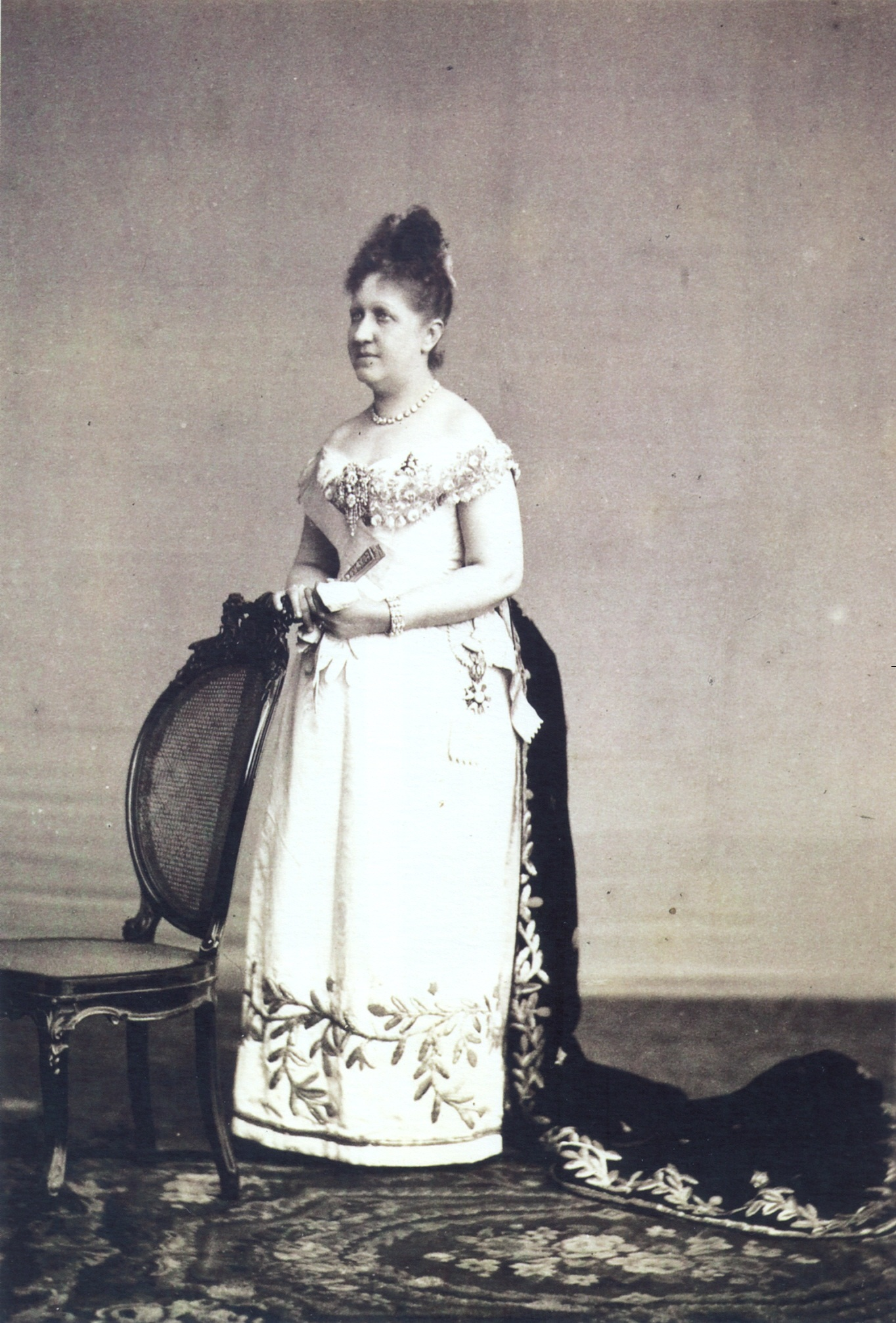 Isabel, Princess Imperial of Brazil (1846-1921) in court dress during her acclamation as regent for the third time.